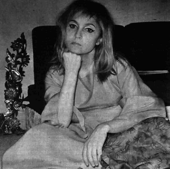 Italian actress Laura Betti